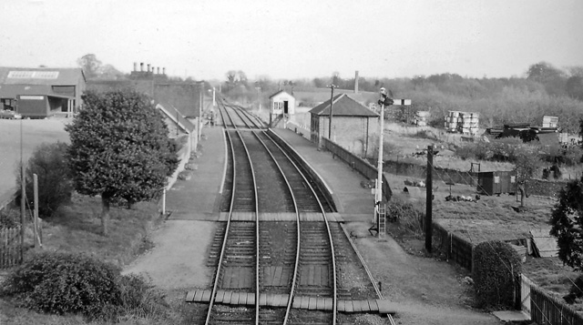 Brackley Town Station (remains). View eastward, towards Buckingham, Verney Junction and Bletchley; ex-LNW Bletchley - Banbury line. The station was closed to passengers on 2/1/61 - less than three months before this photograph, in spite of an early experiment from 1956 with a single-unit Diesel railcar running between Buckingham and Banbury and calling also at two new Halts, which proved to be a success. The service was then cut back to Bletchley - Buckingham only (with the railcar) until 7/9/64. (Goods traffic on the branch ceased completely west of Buckingham on 2/12/63, from Bletchley on 5/12/66).